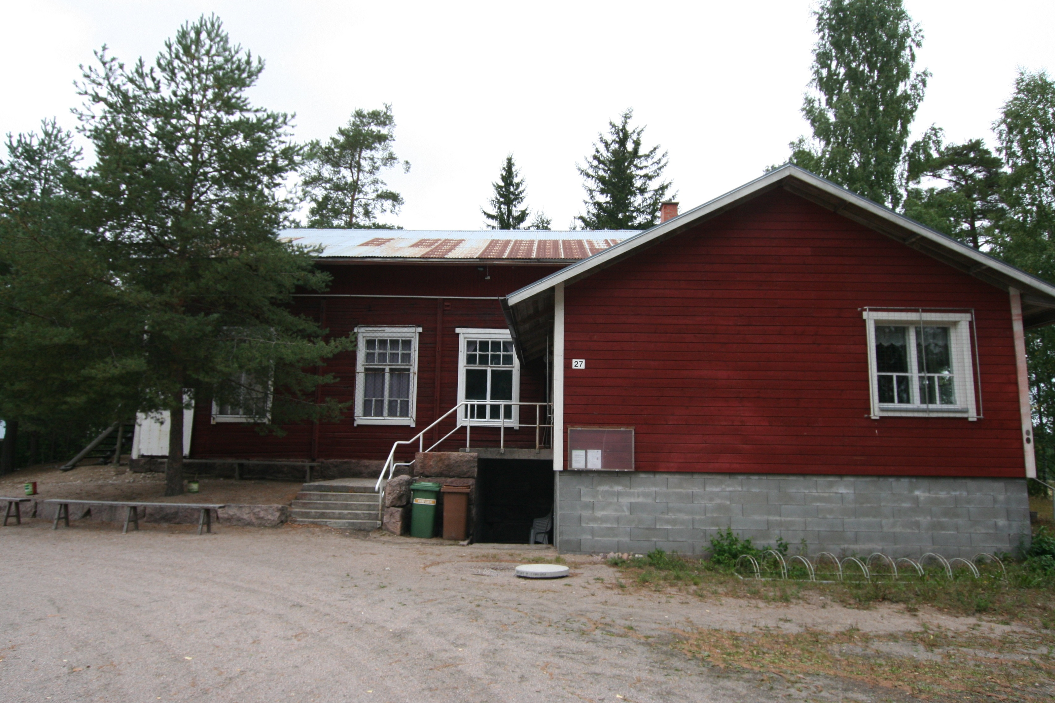 Club house in Virenoja